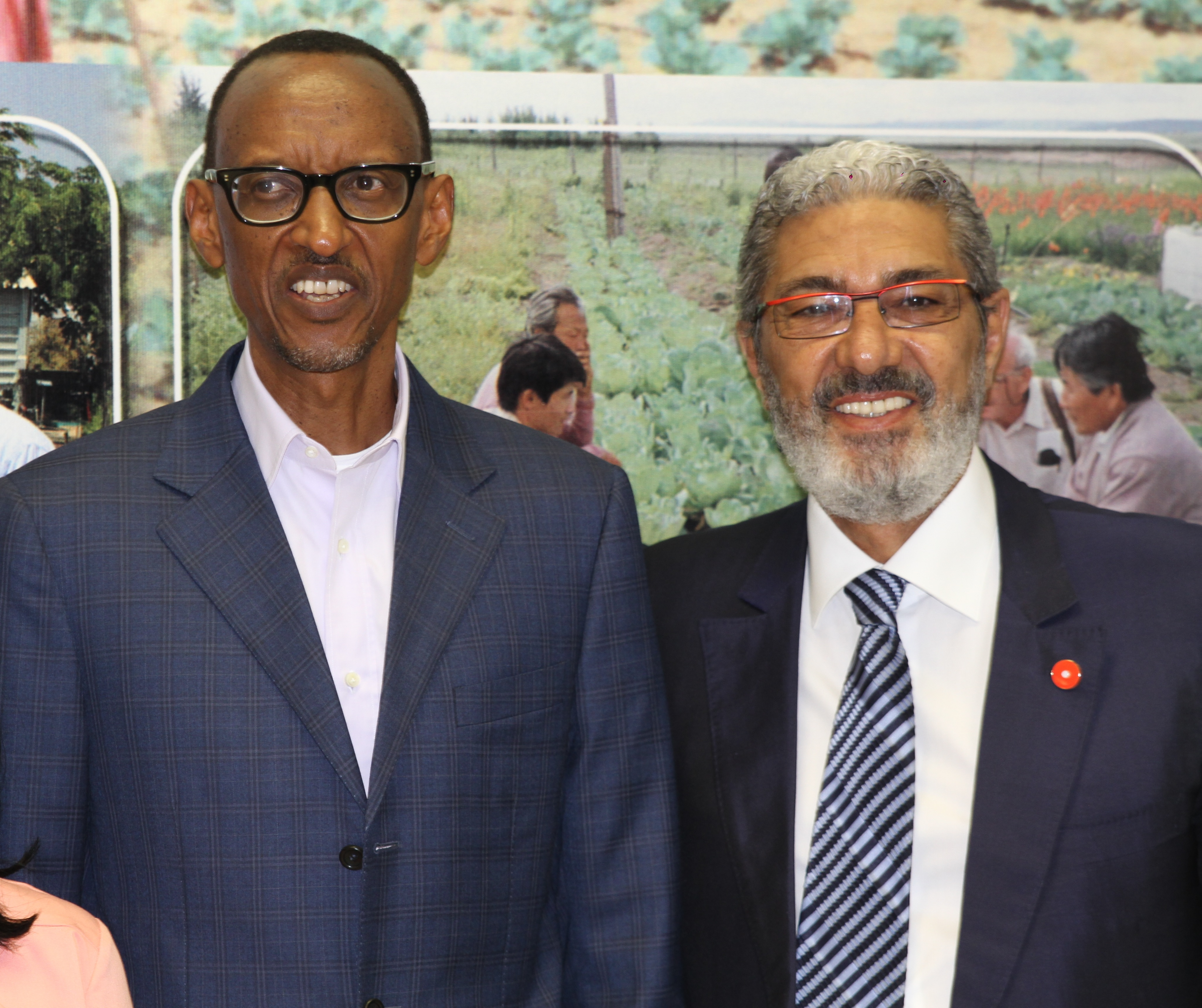 Hezi Bezalel, honorary consul of Rwanda in Israel with Rwandian President Paul Kagame